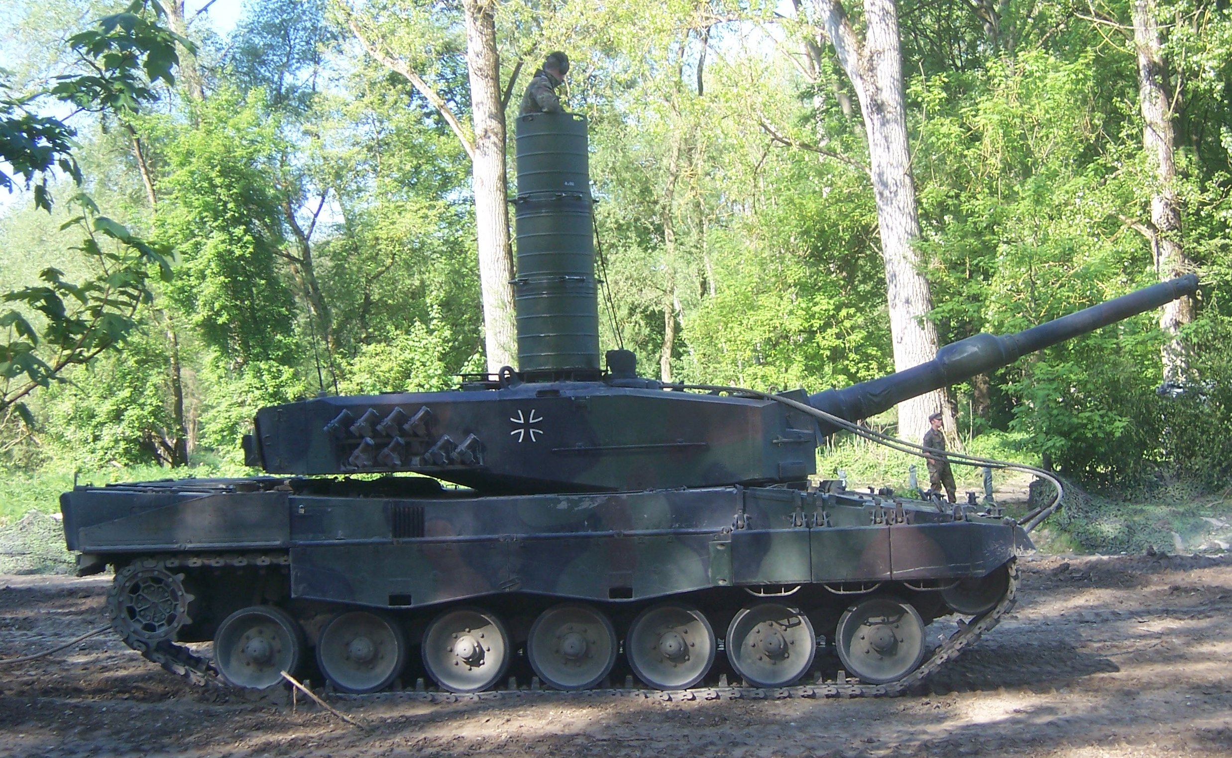 German Leopard 2 tank prepared to cross the Danube.